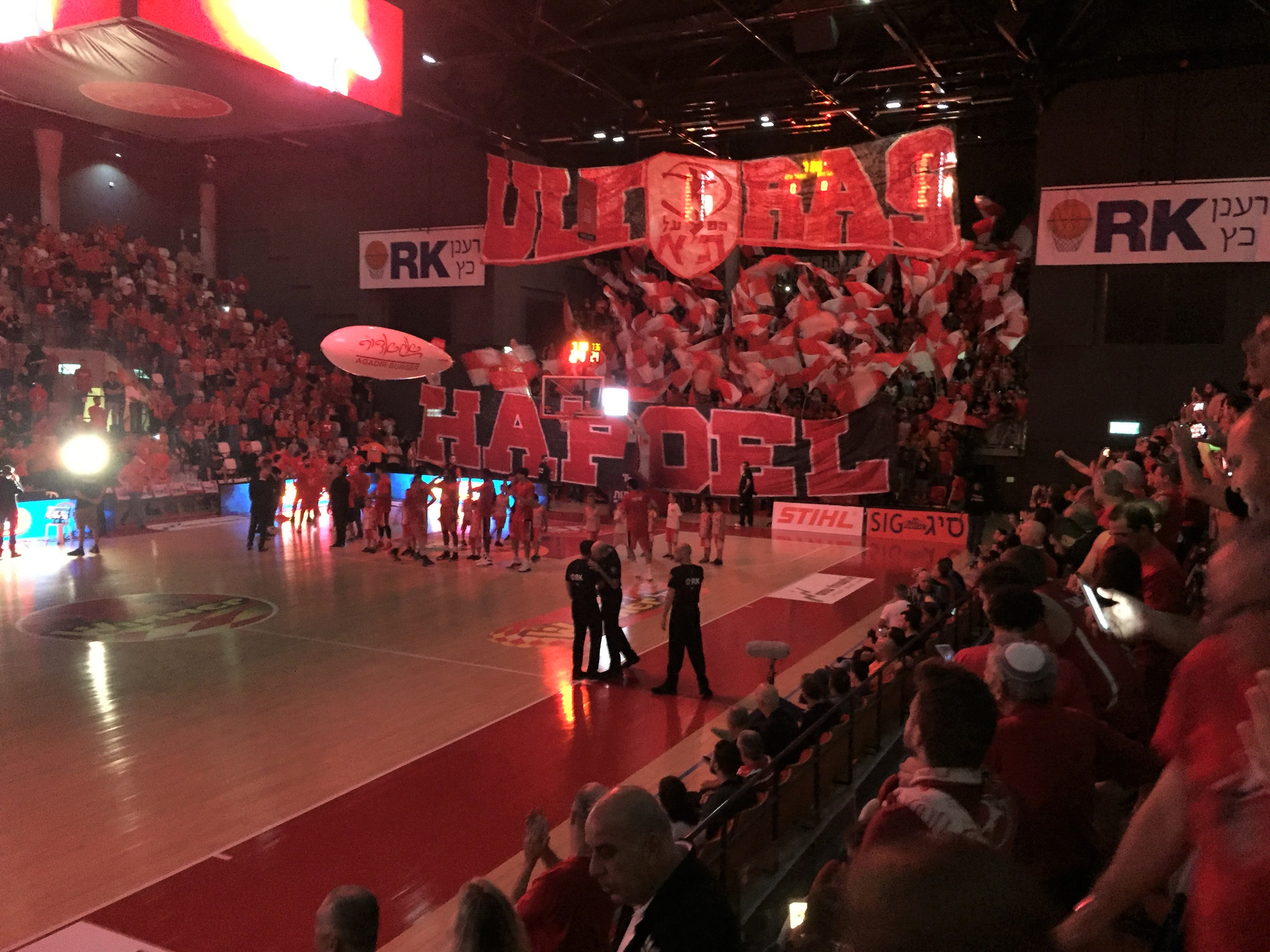 Hapoel Tel Aviv BC fans at Drive in Arena, 2017